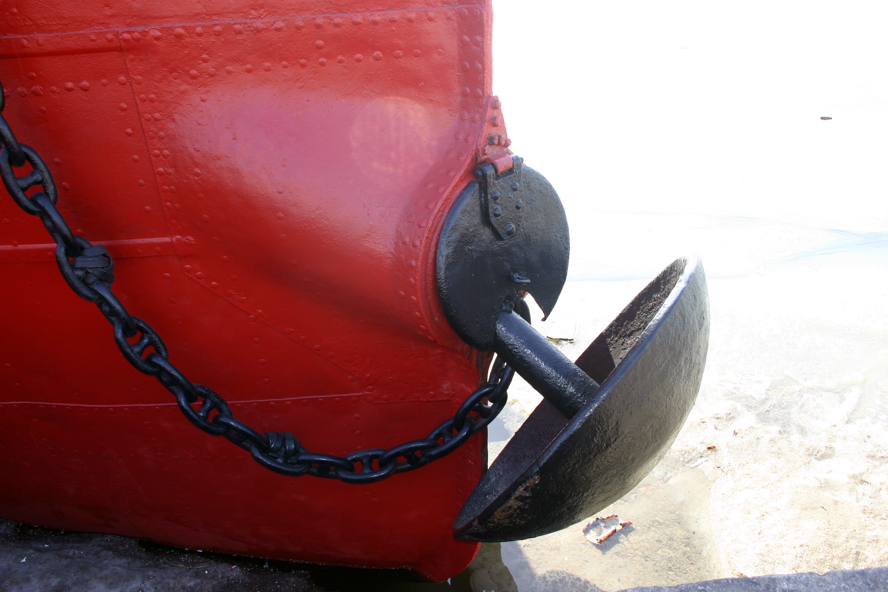 A mushroom anchor on a museal lighthouse vessel Helsinki